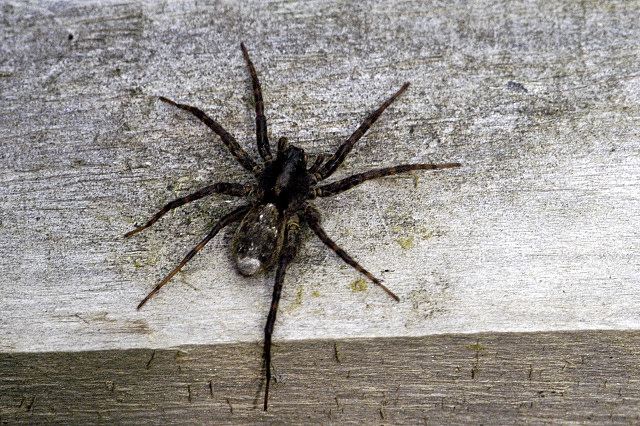 female Pardosa pullata from Commanster, Belgian High Ardennes .